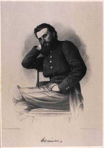 Hans Peter Valdemar Mønster (1822-1866), Danish army officer